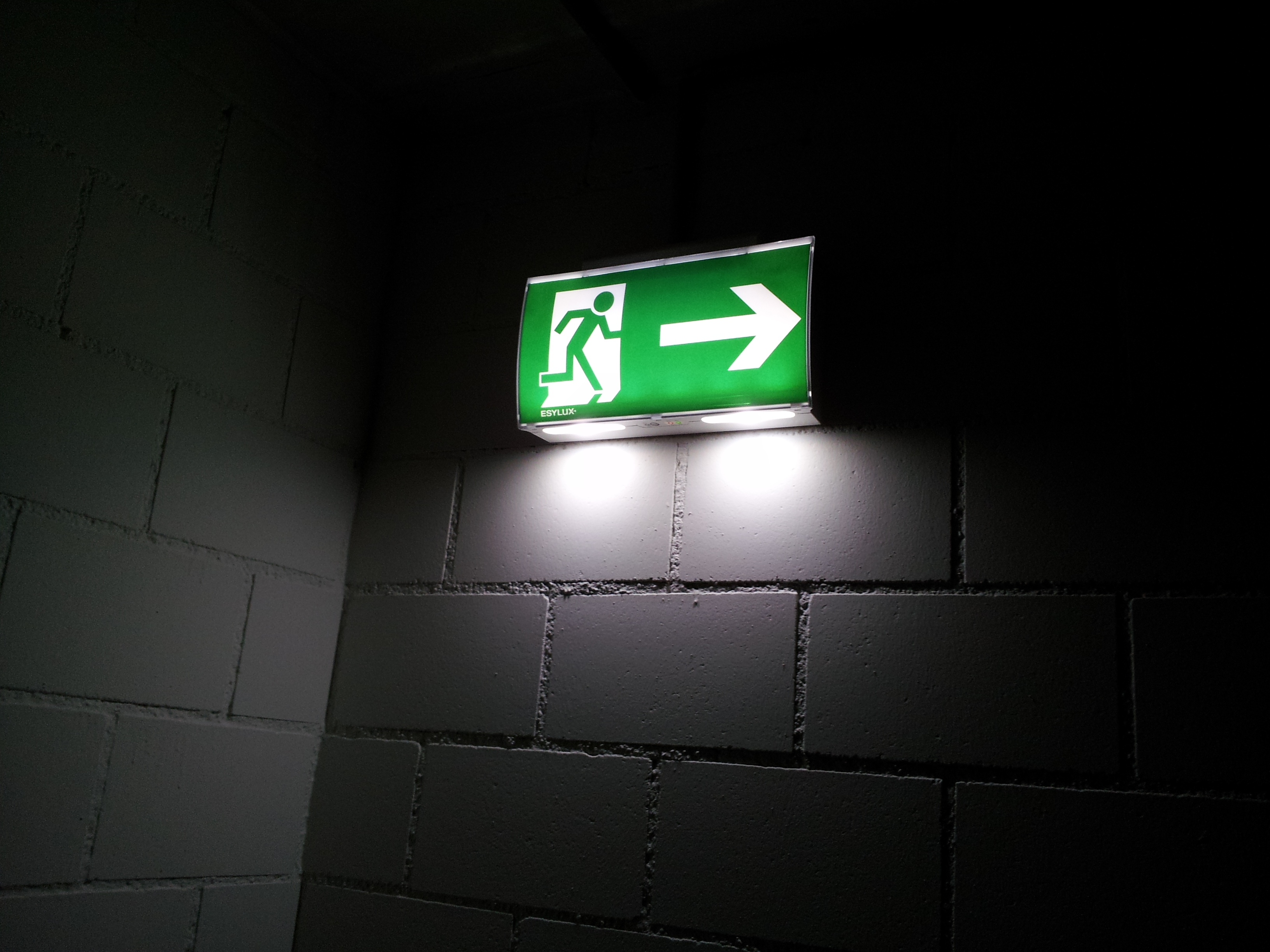 An emergency exit sign in a dark corridor.